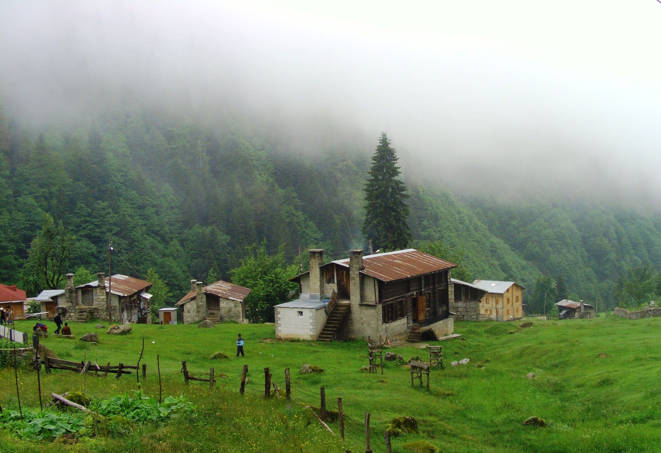 A view of Ayder Yaylasi (Plateau of Ayder) in Çamlıhemşin district of Rize Province located in Black Sea Region of Turkey.